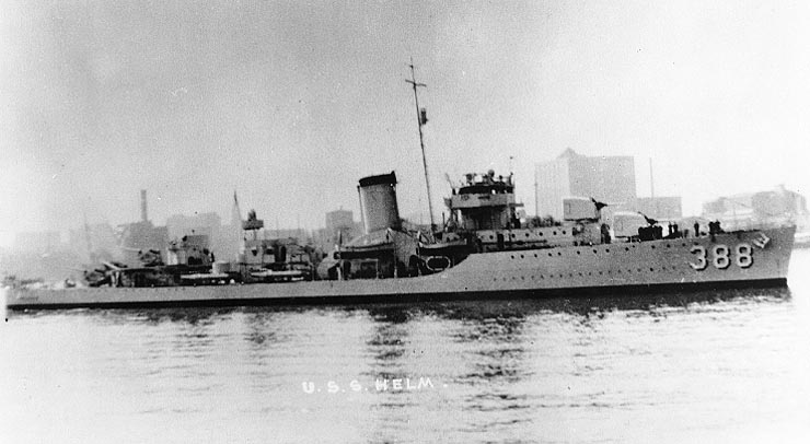 USS Helm (DD-388) Removed caption read: Photo # NH 67686 USS Helm (DD-388), circa the later 1930s Navy Photos of Helm (DD-388)